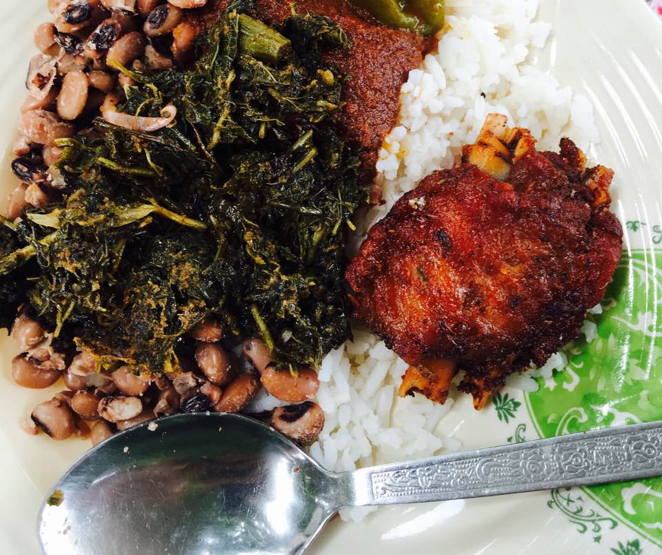 Rice, beans, greens and chicken from a street vendor, Cotonou This is an image of music and dance from Benin